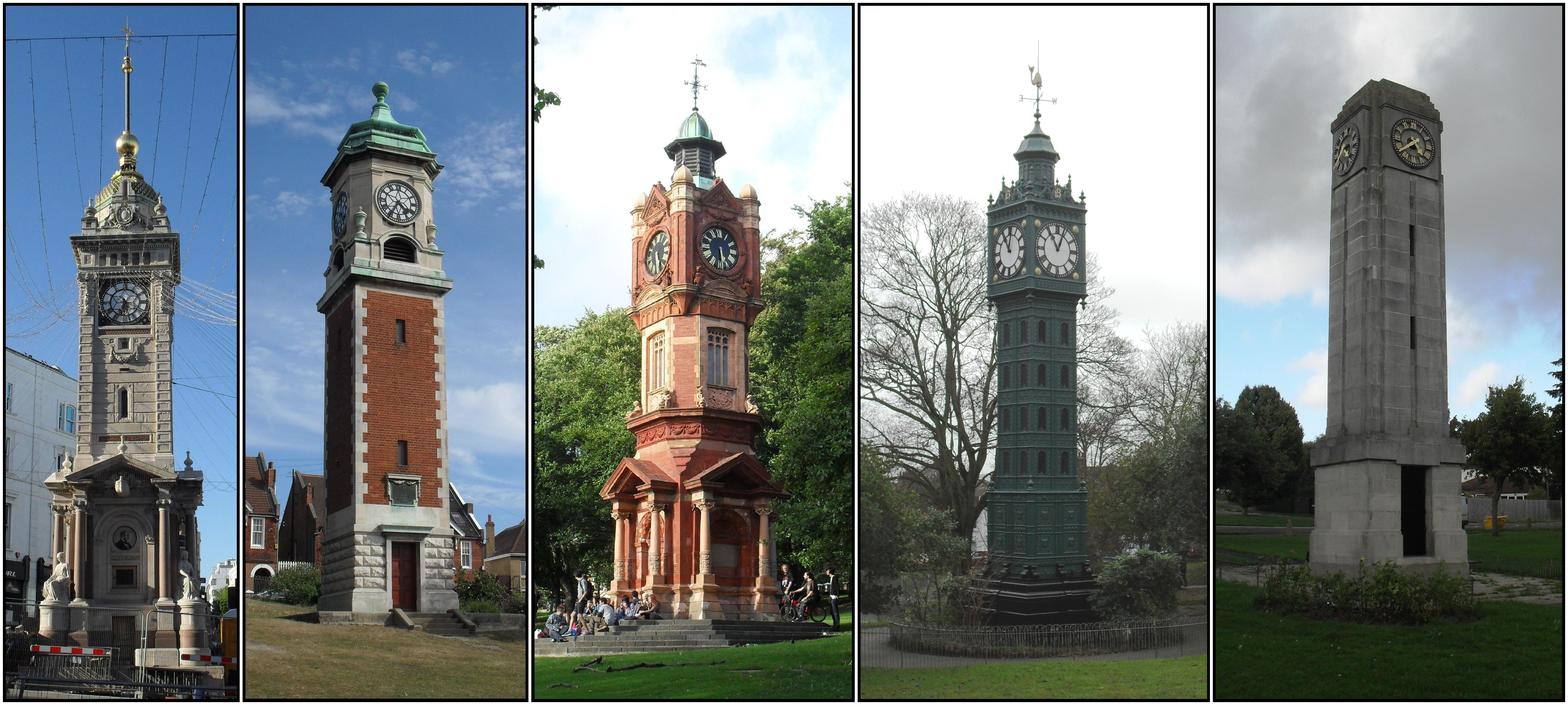 A montage of four clock towers in the city of Brighton and Hove, England. Left to right: Jubilee Clock Tower, North Street (Grade II-listed); Queen's Park Clock Tower (Grade II-listed); Preston Park Clock Tower (Grade II-listed); Ladies Mile Estate Clock Tower, Patcham. Taken on 23 May 2010, 31 July 2010, 24 August 2010 and 24 August 2010 respectively. The Queen's Park image is a derivative of this image. The Preston Park image is a derivative of this image.